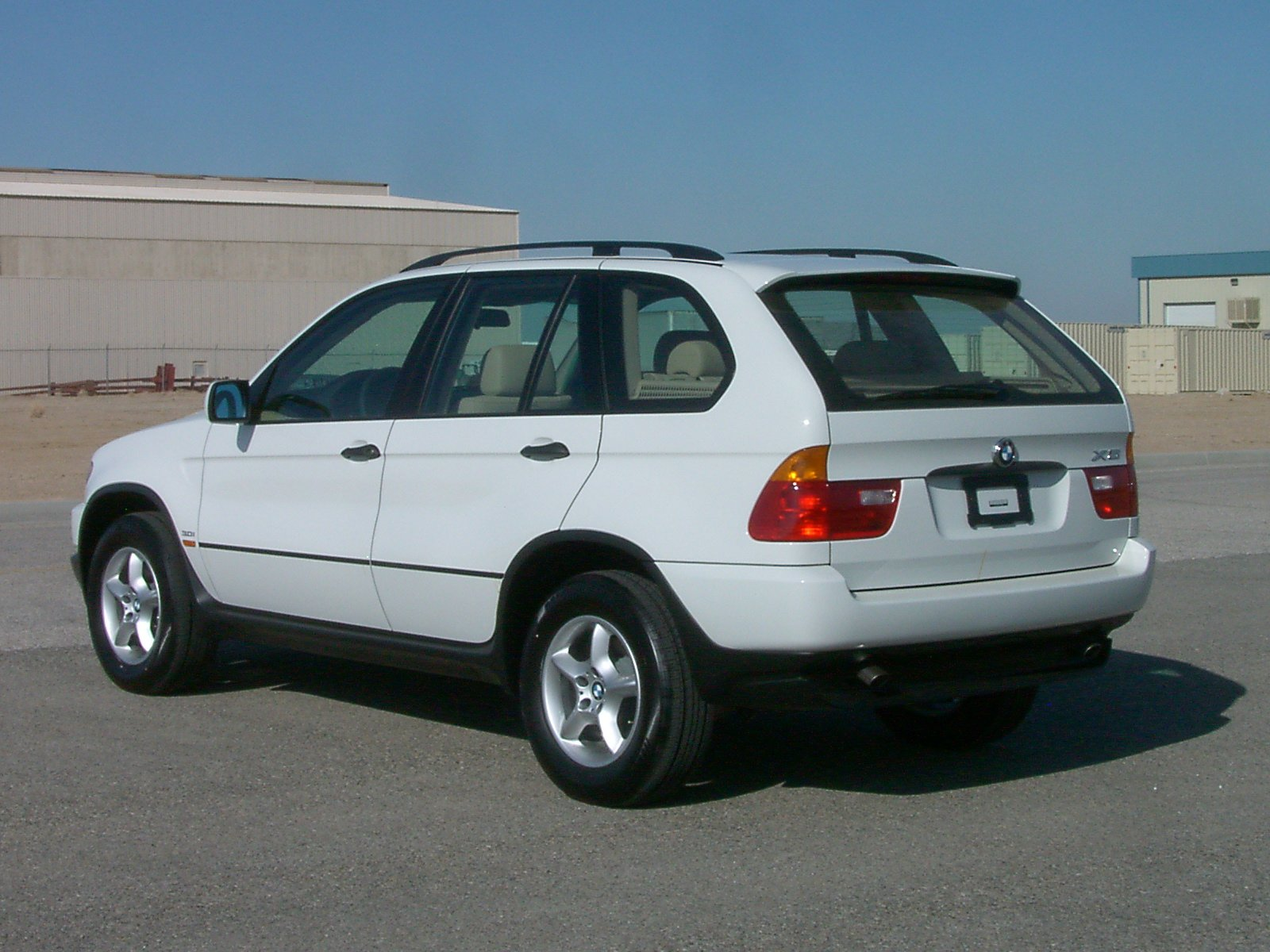 2003 BMW X5 3.0i, photographed in USA.